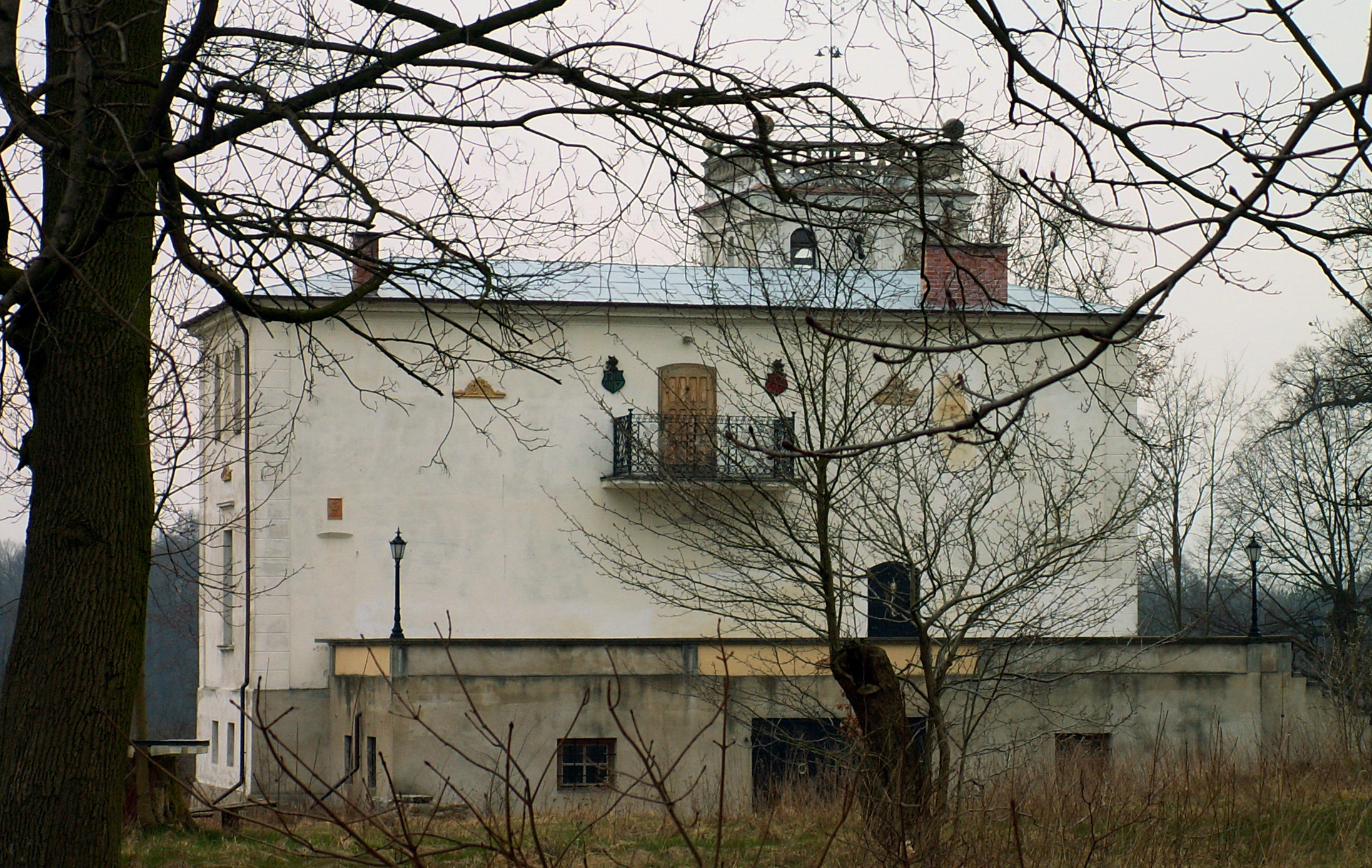 Manor in park in village Swiesz - sight from Byton